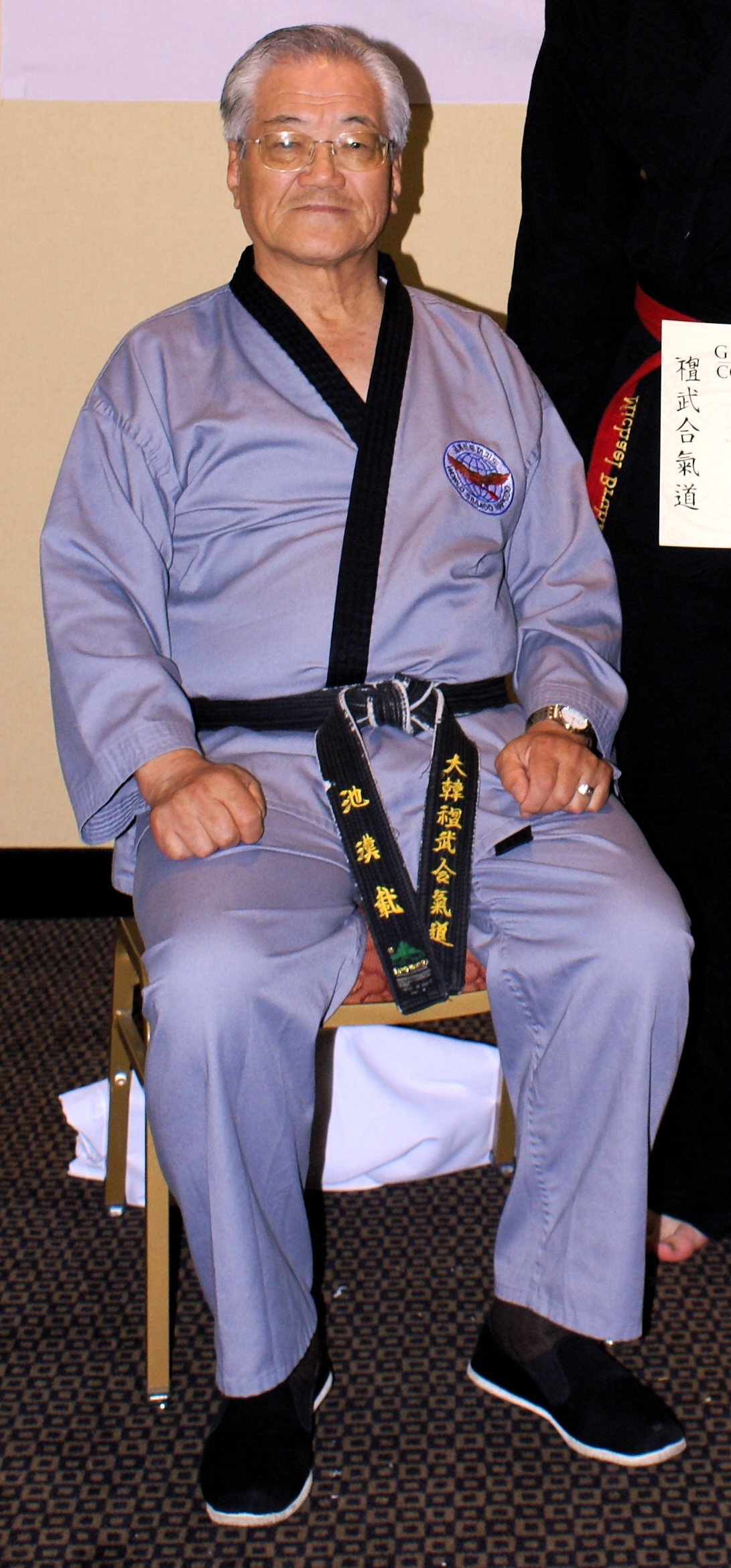 Myself(cropped out) with founder of Hapkido and Sin moo Hapkido, Ji Han-Jae, at the first international Sin Moo Hapkido conference.